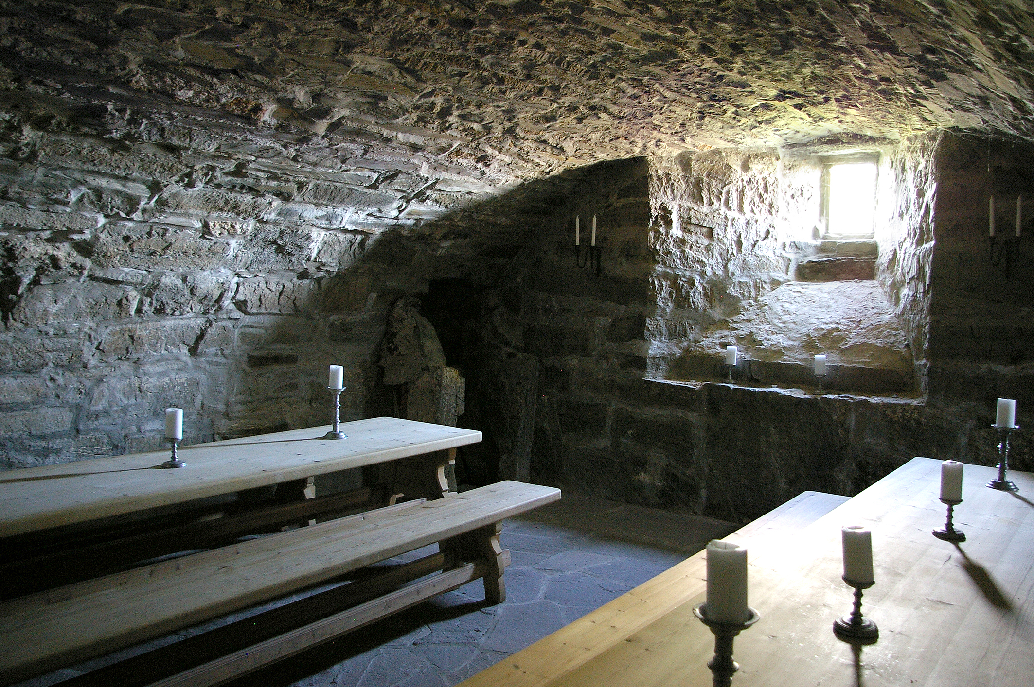 One of the oldest Stone buildings in Norway, still remaining.